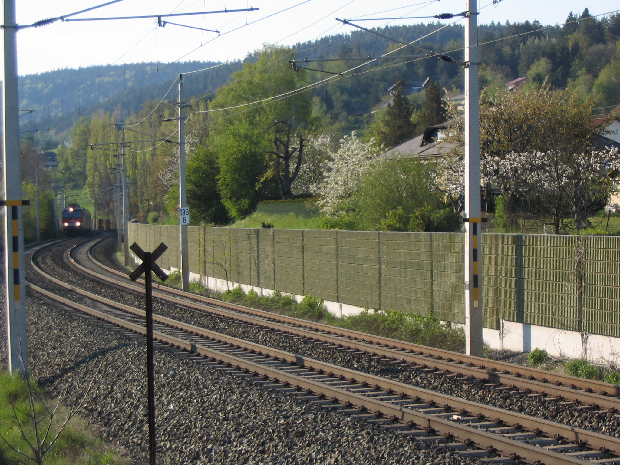 Railway noise barrier / Lärmschutzwand. Location:Austria